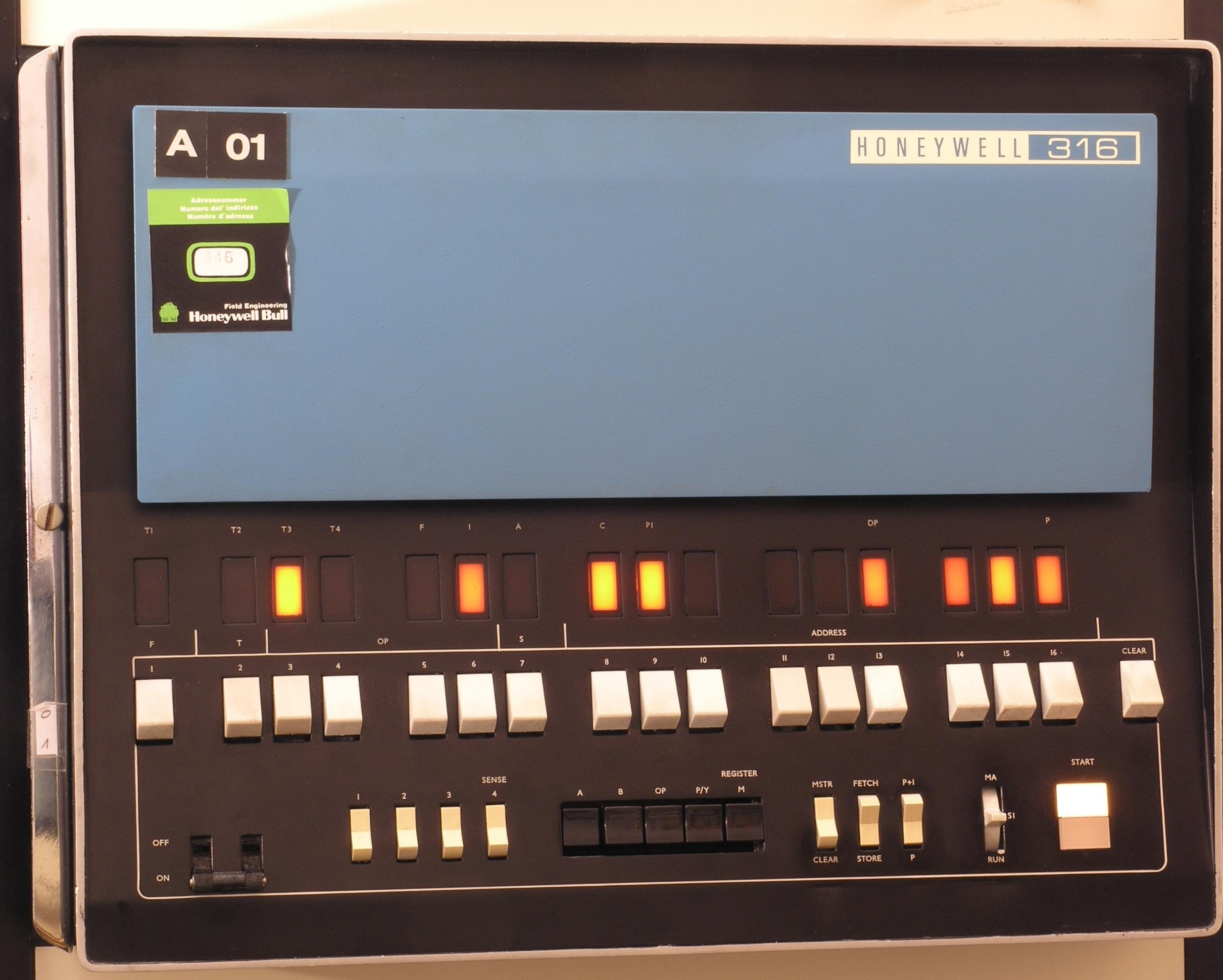 Honeywell 316 minicomputer showing front panel console